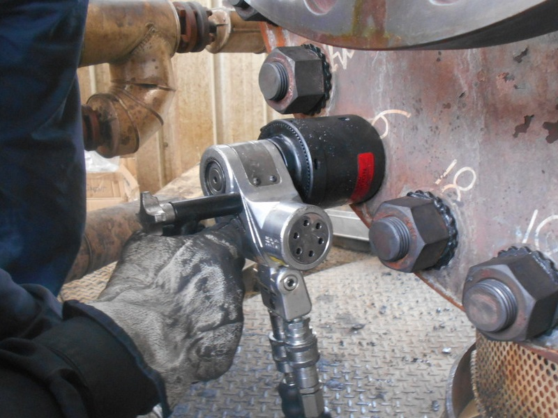 Bolting made safer and easier with reaction washer